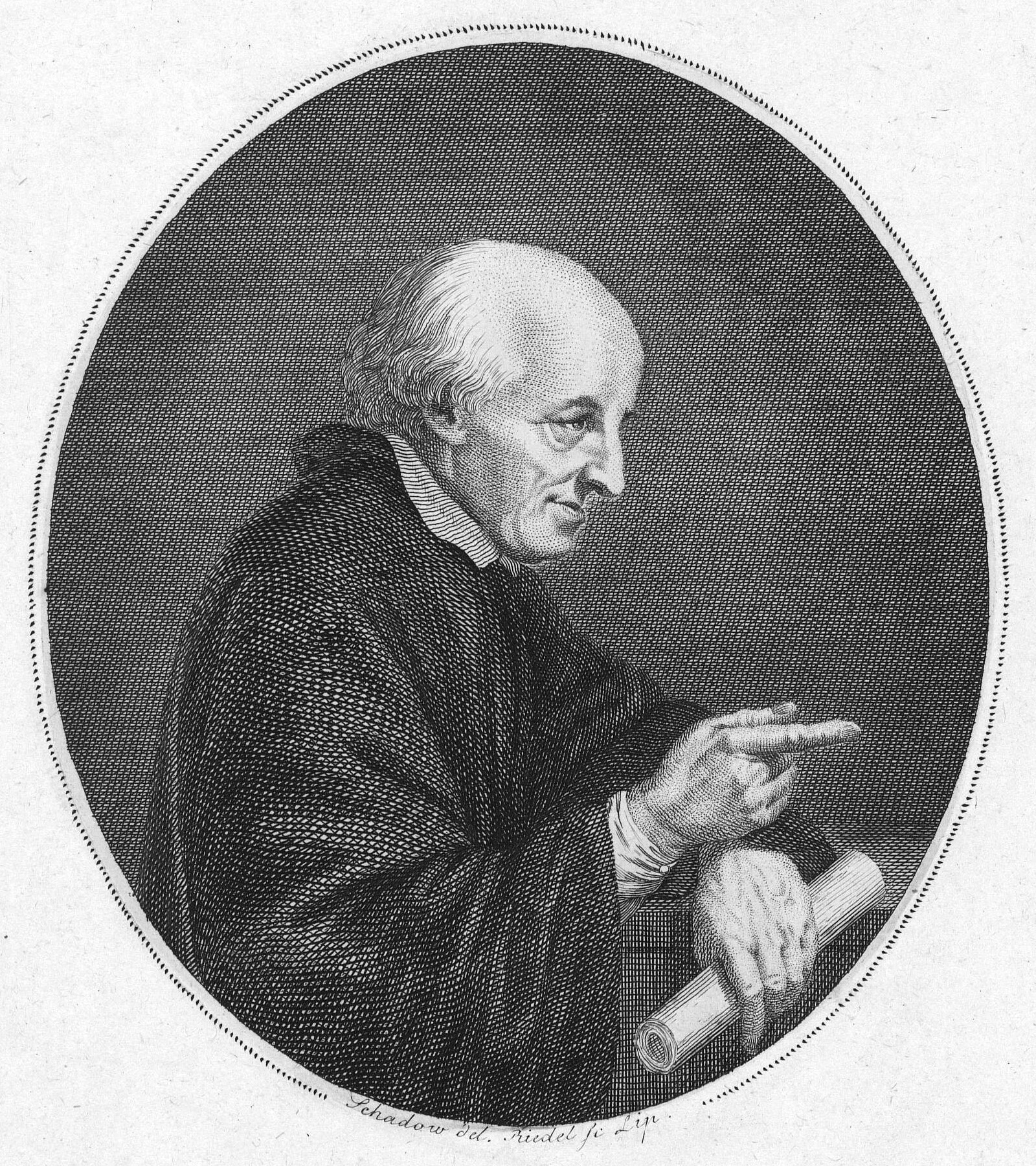 Engraving of Carl Friedrich Christian Fasch from Carl Traugott Riedel